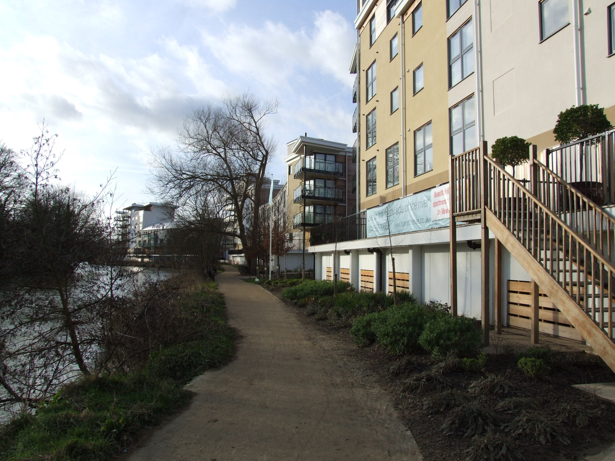 The River Medway flows through Maidstone in Kent. . New riverside residential developments upstream from the Crown Court. - Google Maps - Google Earth